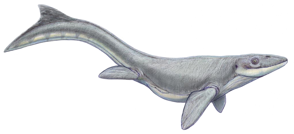 Prognathodon (Formerly Dollosaurus) lutigini - mososaur from Campanian of Volga region.